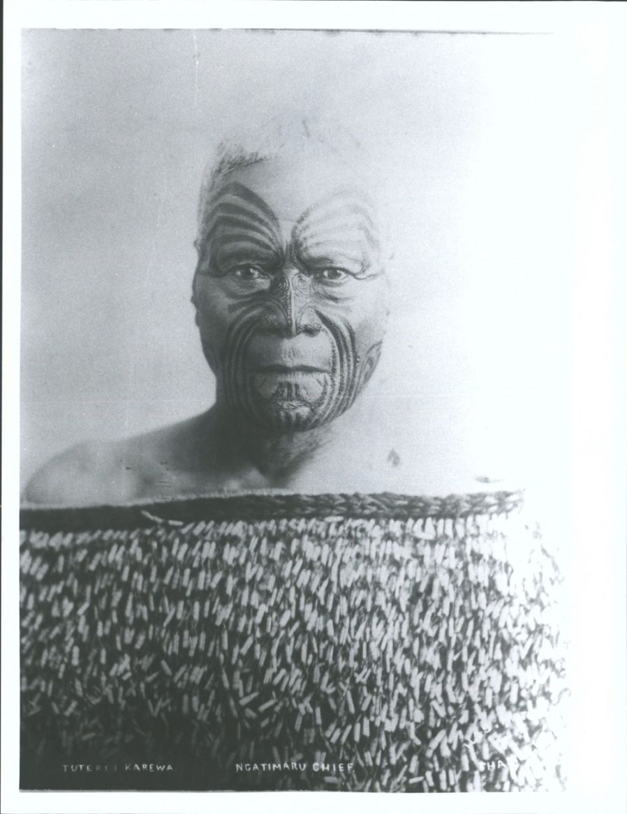 Tuterei, Karewa (ngatimaru chief) by J Lles (Arthur James Iles) died 1943